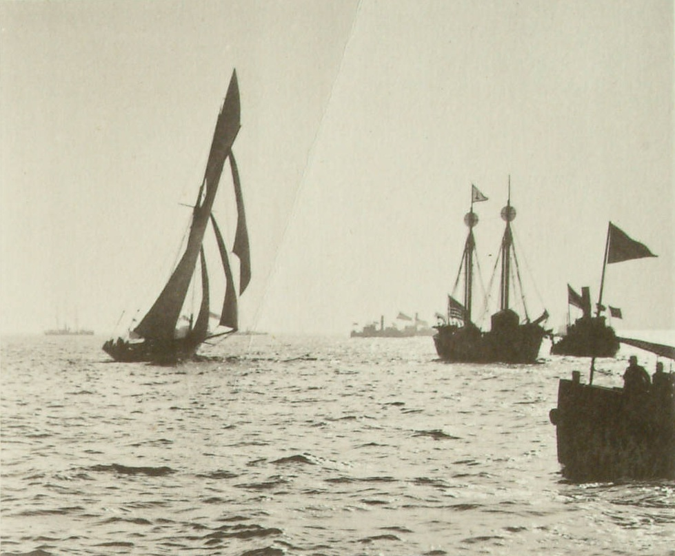 Thistle George Lennox Watson design, 1887) races Volunteer (Edward Burgess design, 1887) for the America's Cup in 1887: Volunteer rounding the Lightship